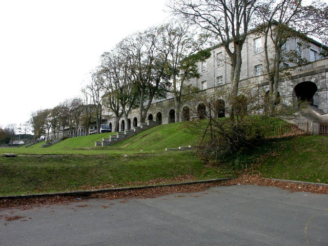 Looking West along the Devonport High School for Boys Colonade.